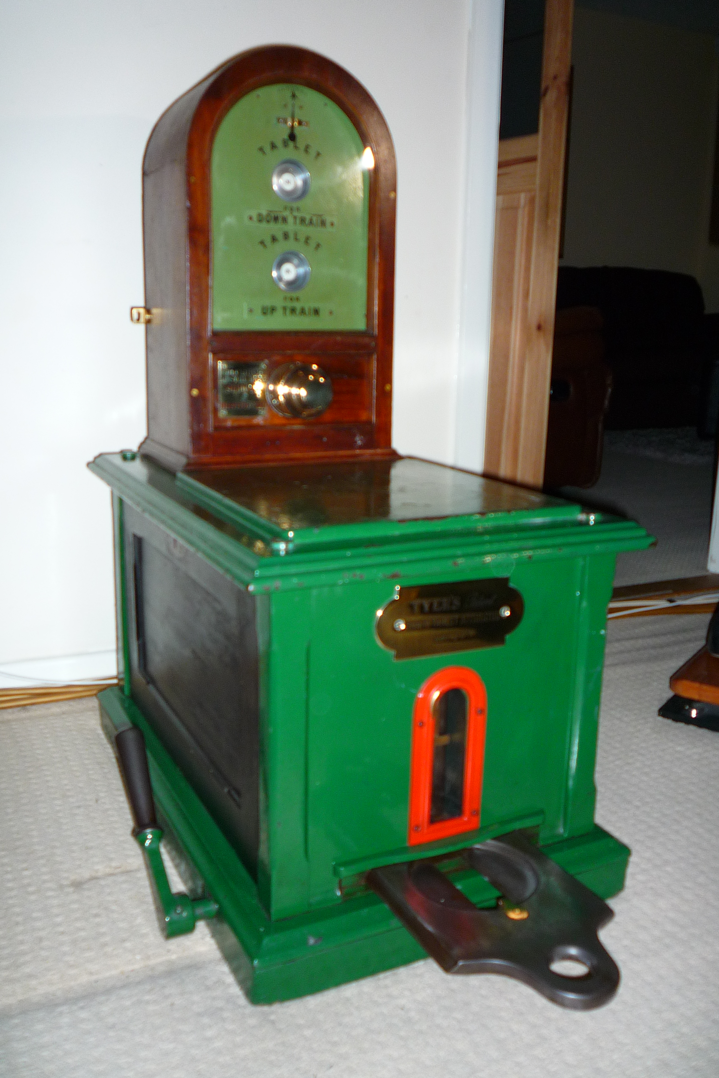 Side view showing the Lever and Tablet tray